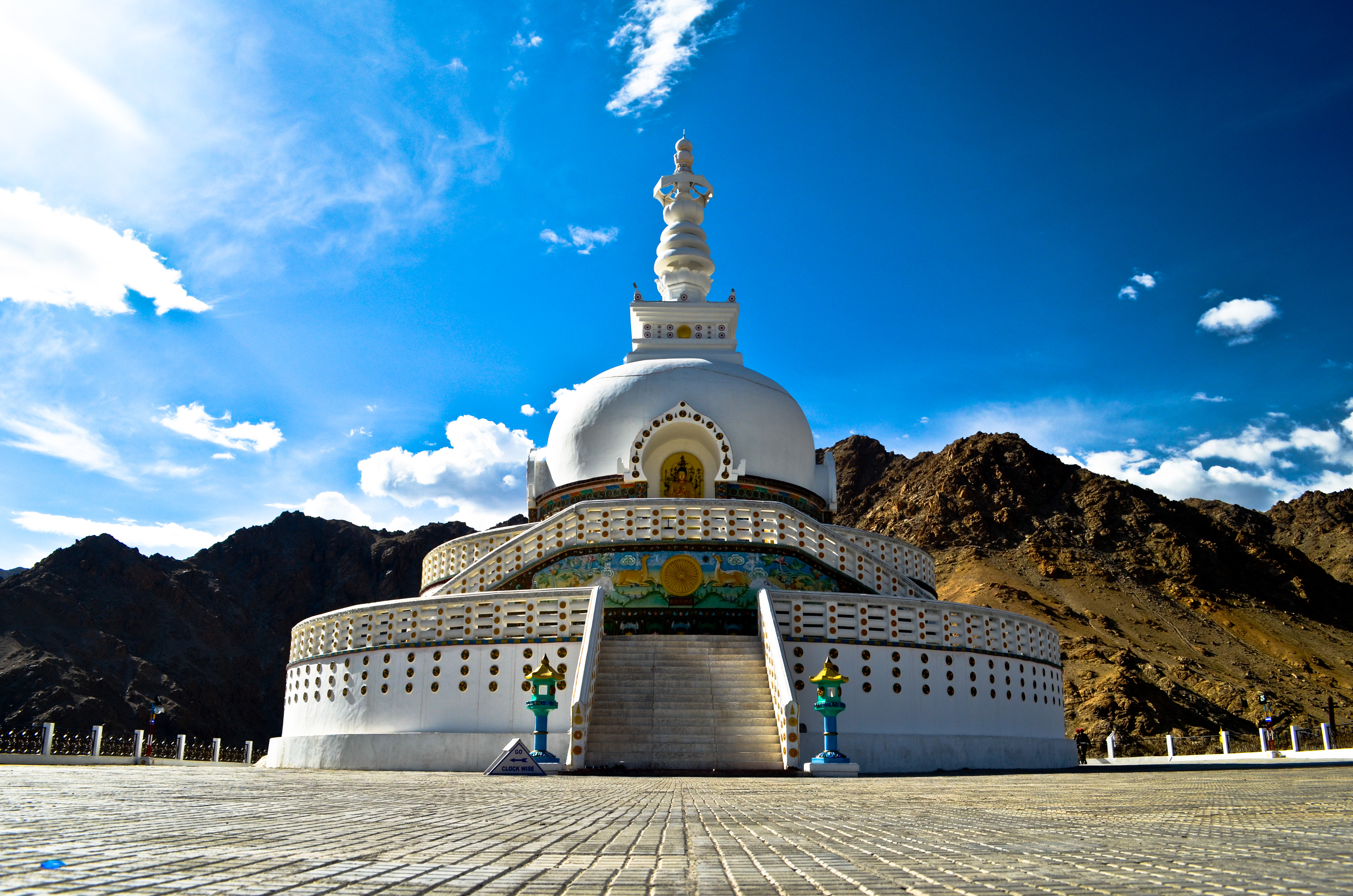 Shanti Stupa is situated at a height of 4267 meters overlooking the Leh city, it gives a panaoromic view of surrounding snow capped mountains